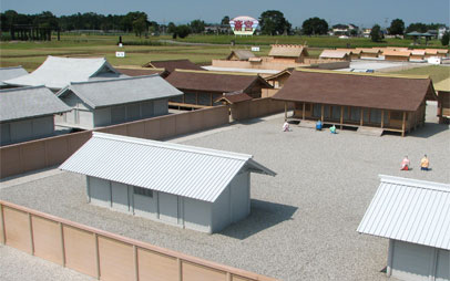 1/10th scale model of historical Saiku, Meiwa Town (Mie Prefecture, Japan)